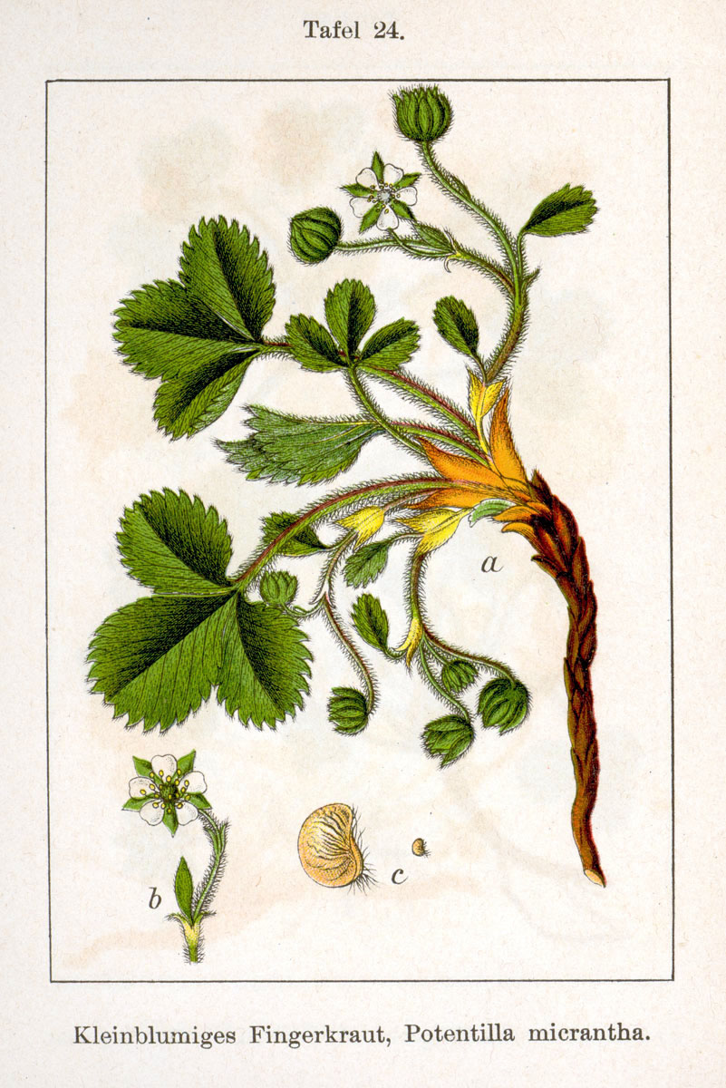 Potentilla micrantha Ramond ex DC. Original Description Kleinblumiges Fingerkraut, Potentilla micrantha